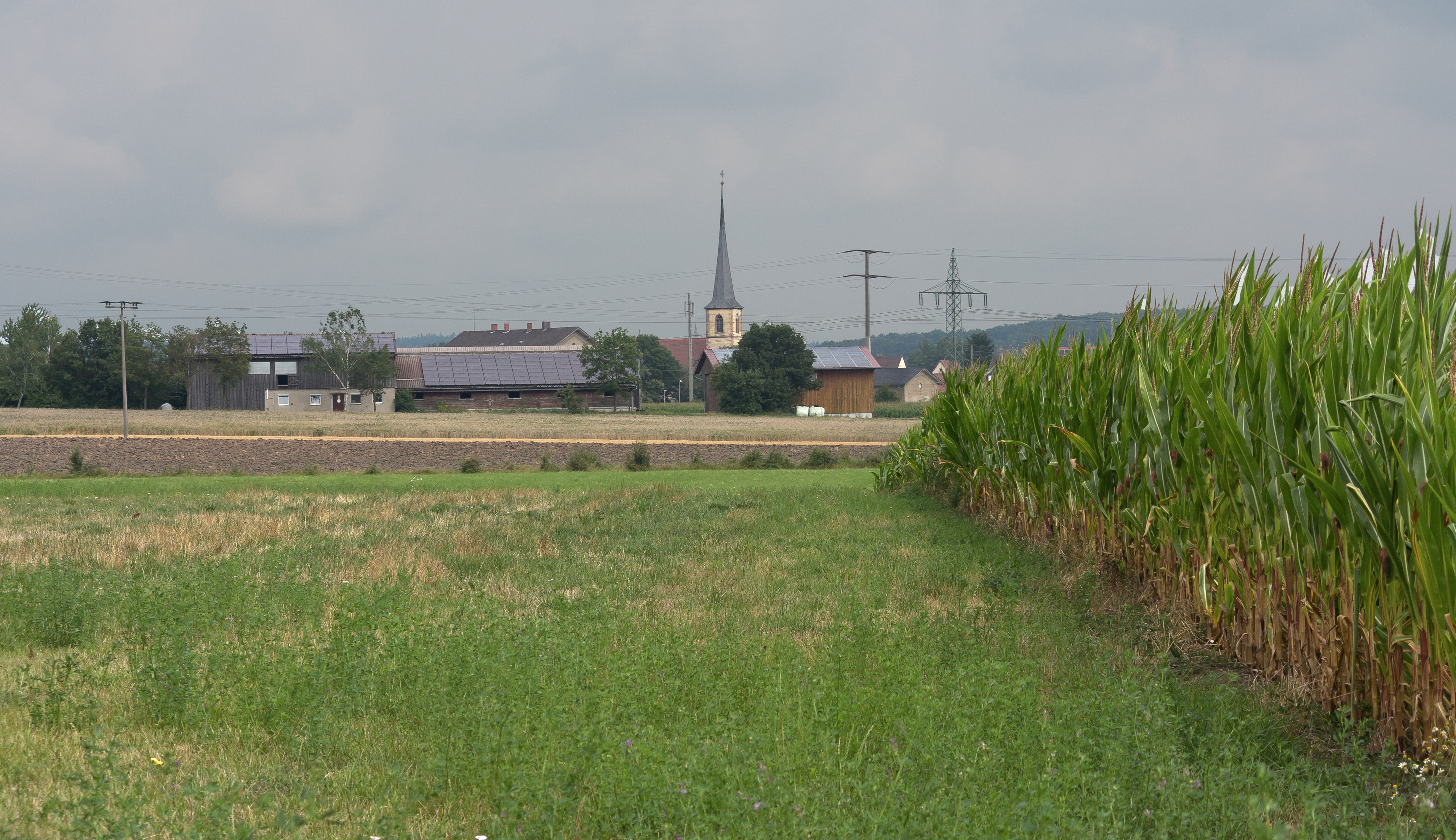 Markt Bibart, view to the village with church (katholische Pfarrkirche Sankt Marien)